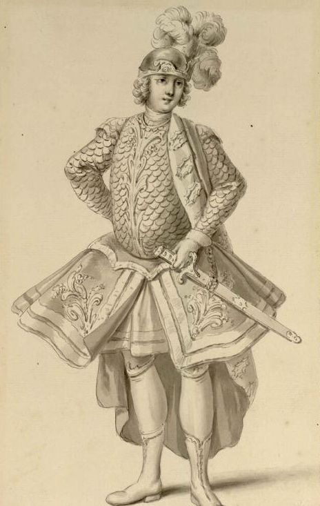 Antigono by Johann Adolph Hasse (staged at Dresden Court Theatre 1753) Costume designs by Francesco Ponte (b. 1725) - singer Joseph Schuster (role unclear, since no male role left) fig. 6 of 9 (+title page)